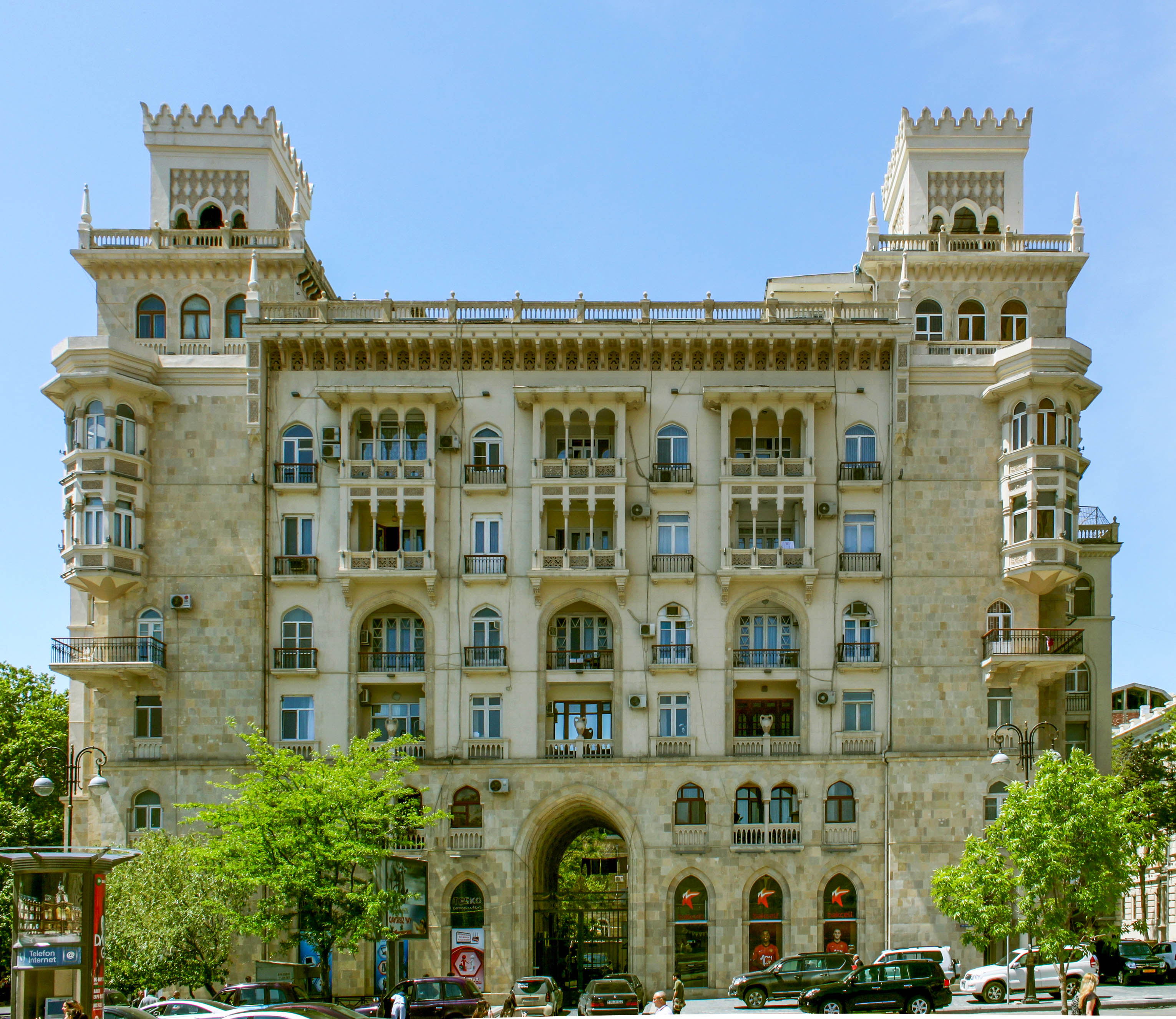 Building in Nizami street